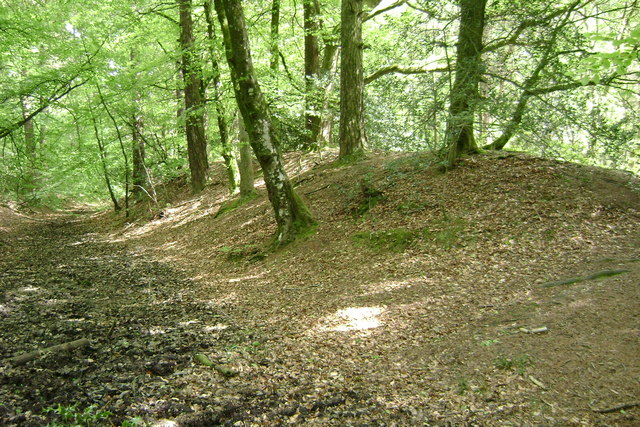 Bank and ditch, Castle Dyke, Little Haldon Castle Dyke is an Iron Age hill fort over 2,000 years old, according to a sign on the approach.